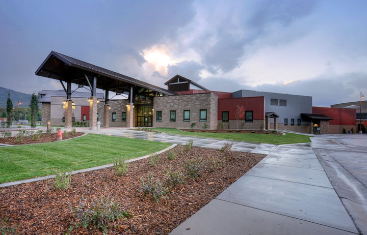 VCBO Architecture photograph of Park City High School's remodeled section after it's completion.